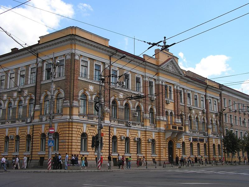 The former EMKE Palace, today Railway Headquarter in Cluj-Napoca